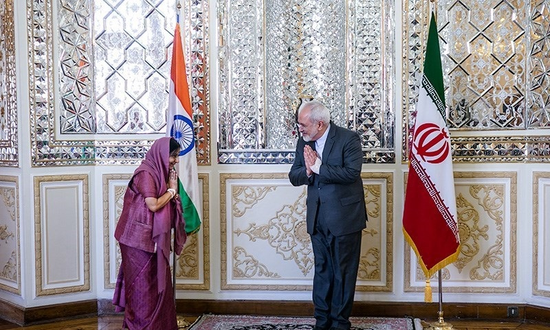 Mohammad Javad Zarif, Foreign Minister of Iran meeting with Indian Foreign Minister Sushma Swaraj at Shahrbani Palace in Tehran